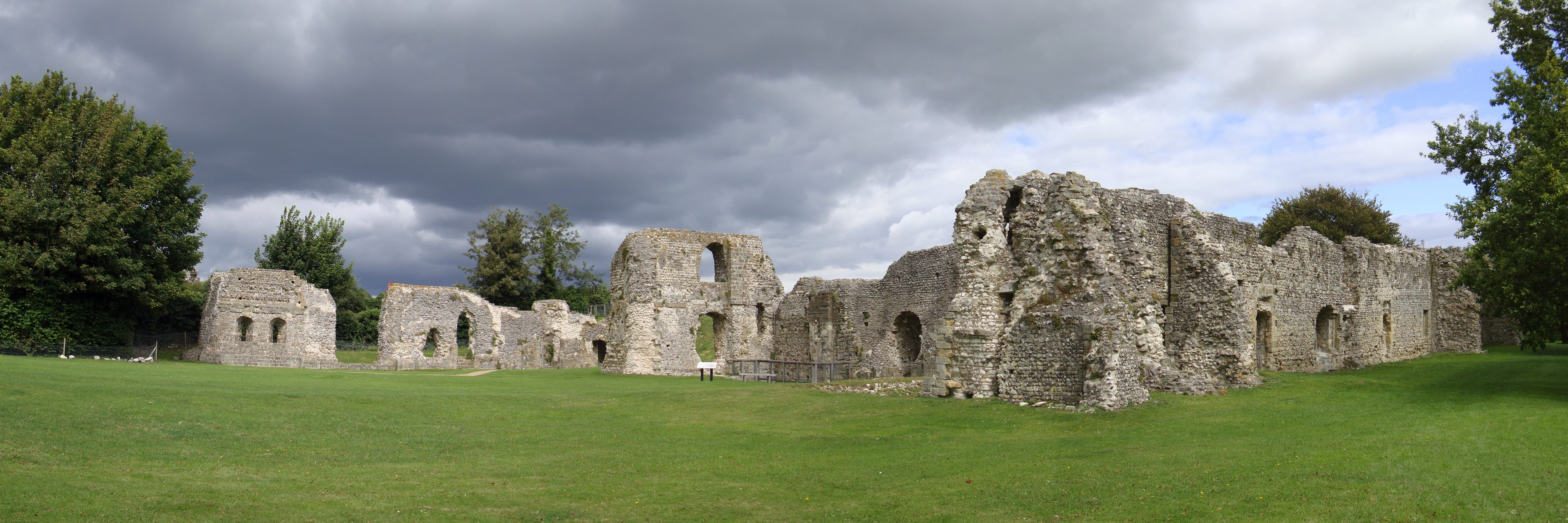 Panorama photograph of Lewes Priory, East Sussex, England